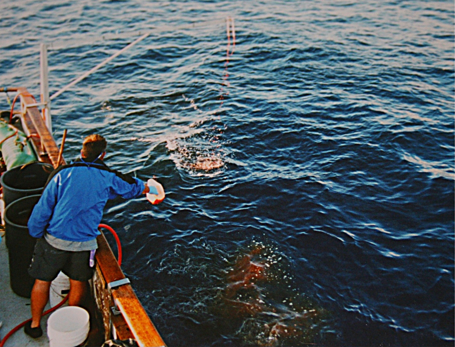 Chuming the water to attract Great white sharks at Guadalupe Island, Mexico The picture is a digital copy of my old film picture(a picture of a picture).